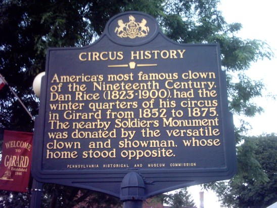 Dan Rice informational sign in Girard Borough, PA